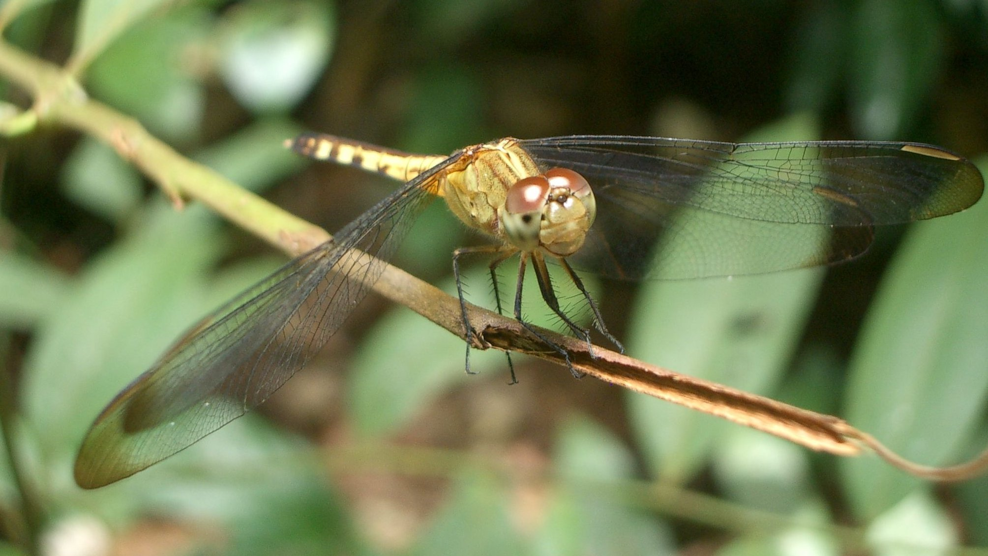 Description: Female Erythrodiplax umbrata